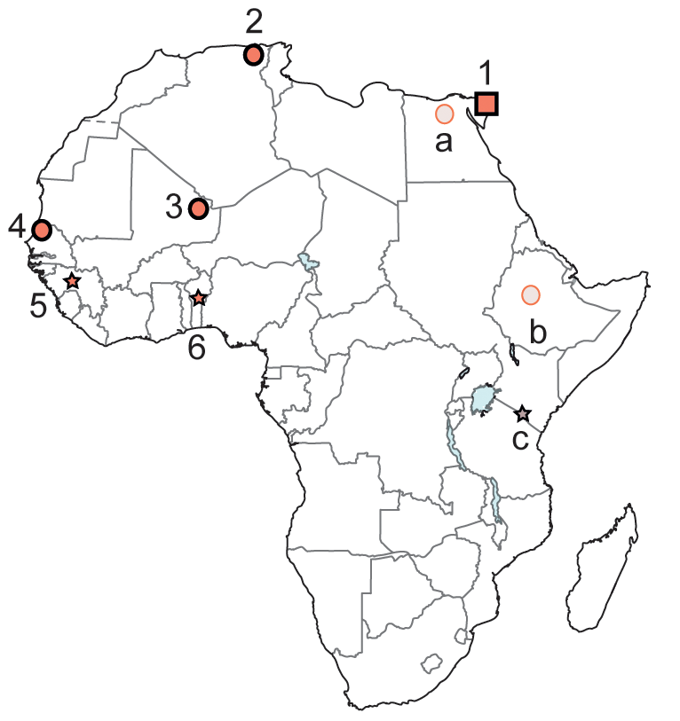 Geographic distribution of the African Canis included in this study. Numbers indicate samples collected for this study (see Table 1), and letters refer to the nucleotide sequences available in the literature or Genbank for cytochrome b. Square, circles and stars represent mtDNA-typed Canis lupus/familiaris, C. l. lupaster, and Canis spp. other than C. lupus, respectively: 1- near Sharm el Shikh city, south Sinai, Egypt; 2- coastal region between Skikda and El-Kala, Algeria; 3- Terarabat, Adrar des Iforas, Mali; 4- near Kheune, east of P.N. du Djoudj, Senegal; 5- Koubia, Dalaba and Tougue districts, Guinea; 6- Béterou, Benin; a- northern Egypt [14]; b- Menz region, Ethiopia [13]; c- southern Kenya and northern Tanzania [53].